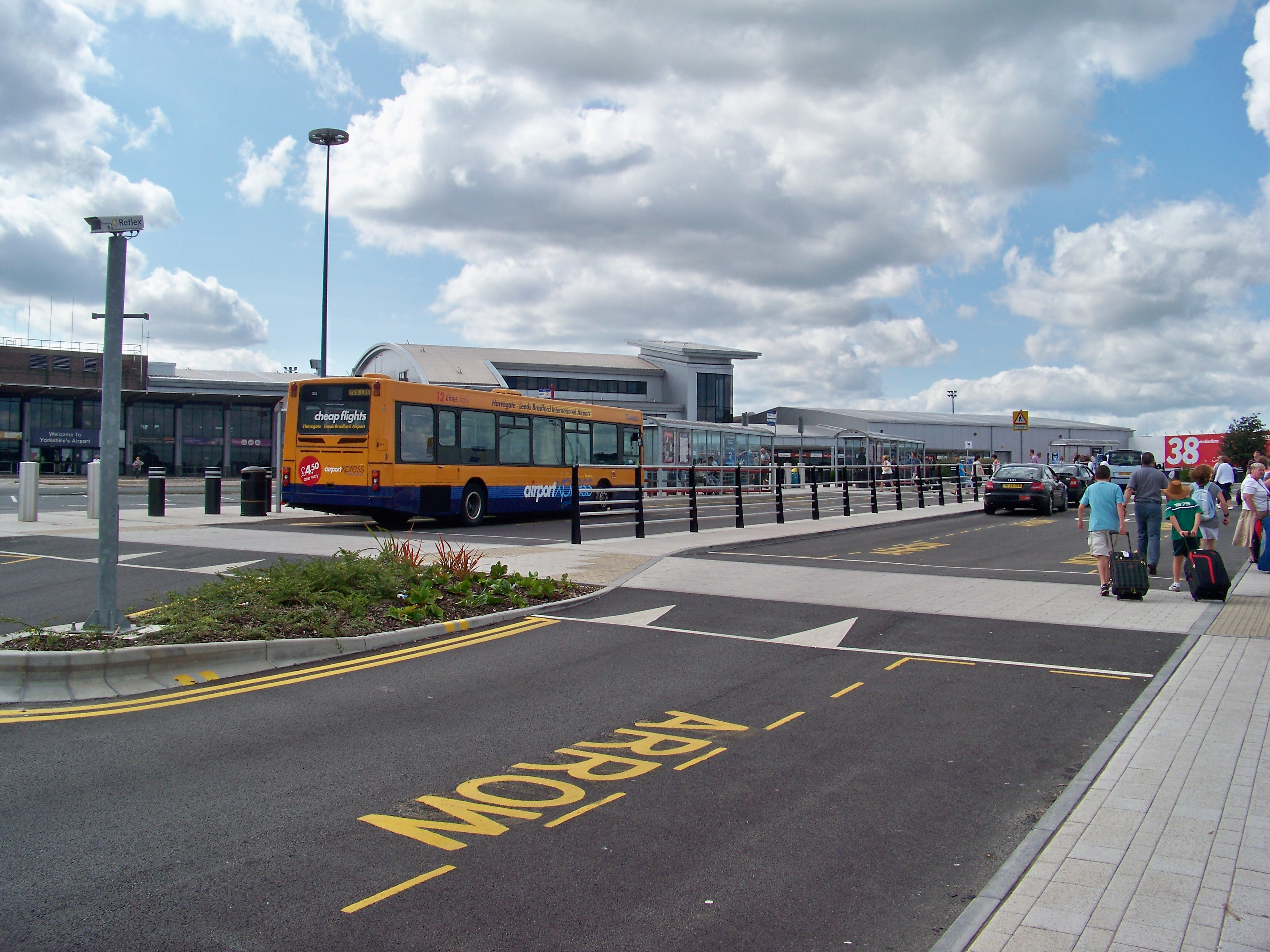 The bus interchange at Leeds Bradford International Airport. Taken on the afternoon of Saturday 22nd August 2009. The bus in view is Trandev Harrogate & District 305 (YC51 LXX), a Volvo B10BLE/Wright Renown, on Aiport Xpress route 767.